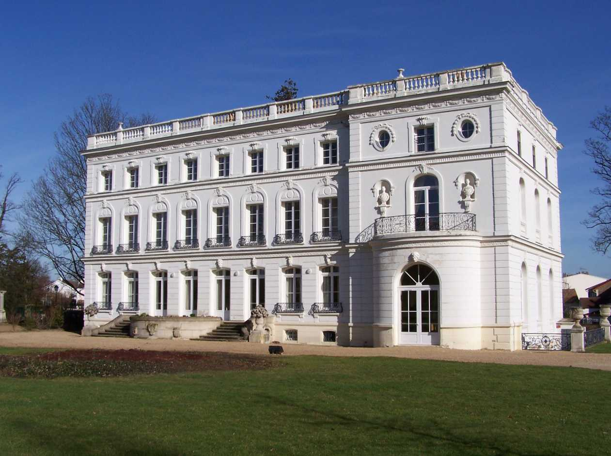 Castle of the Haut-Buc (upper Buc) in Buc (Yvelines, France), southern front